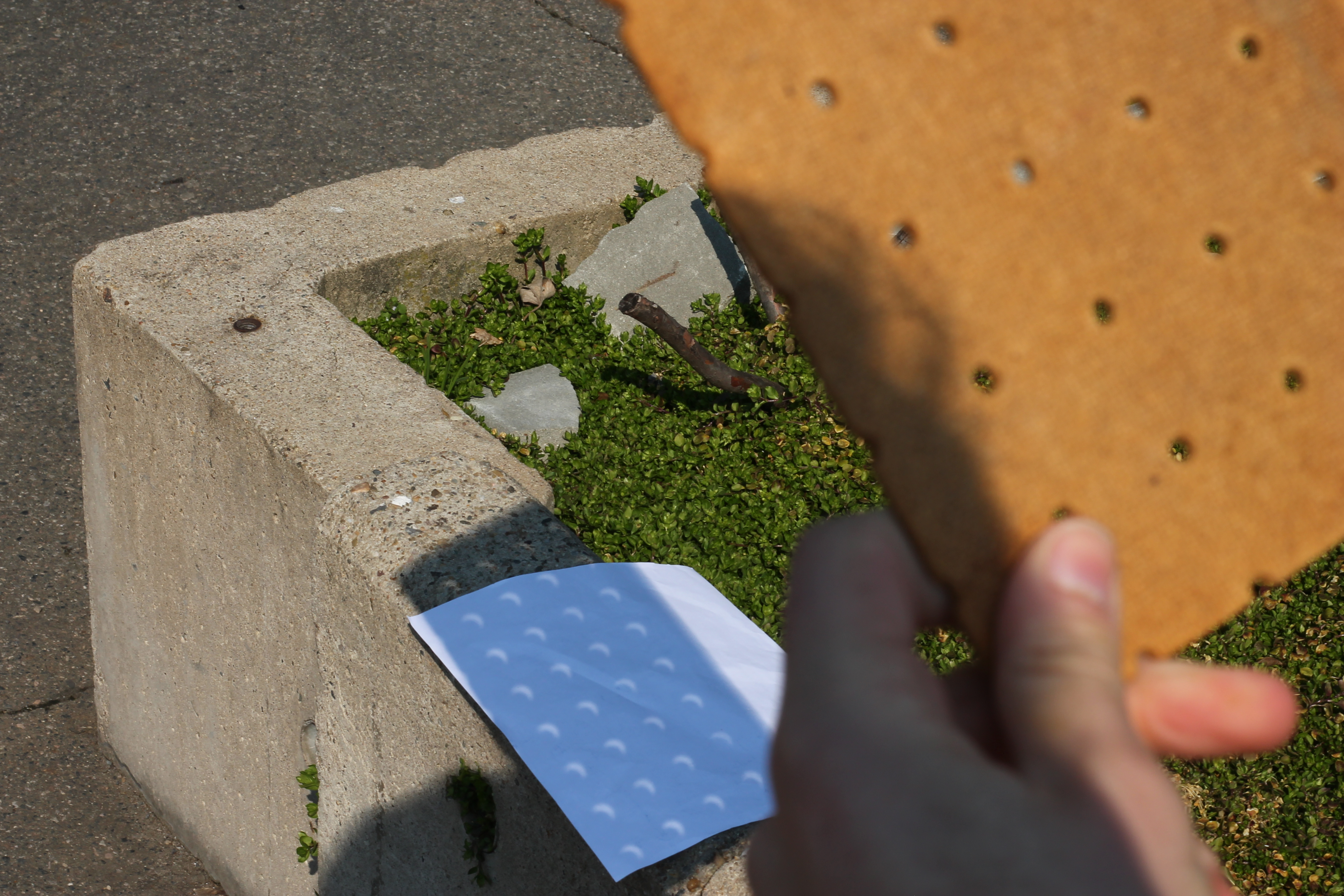 Solar eclipse of March 20, 2015 in Dejvice, Prague, the Czech Republic, in front of the building of Faculty of Civil Engineering CTU, Observing through perforated desk – camera obscura